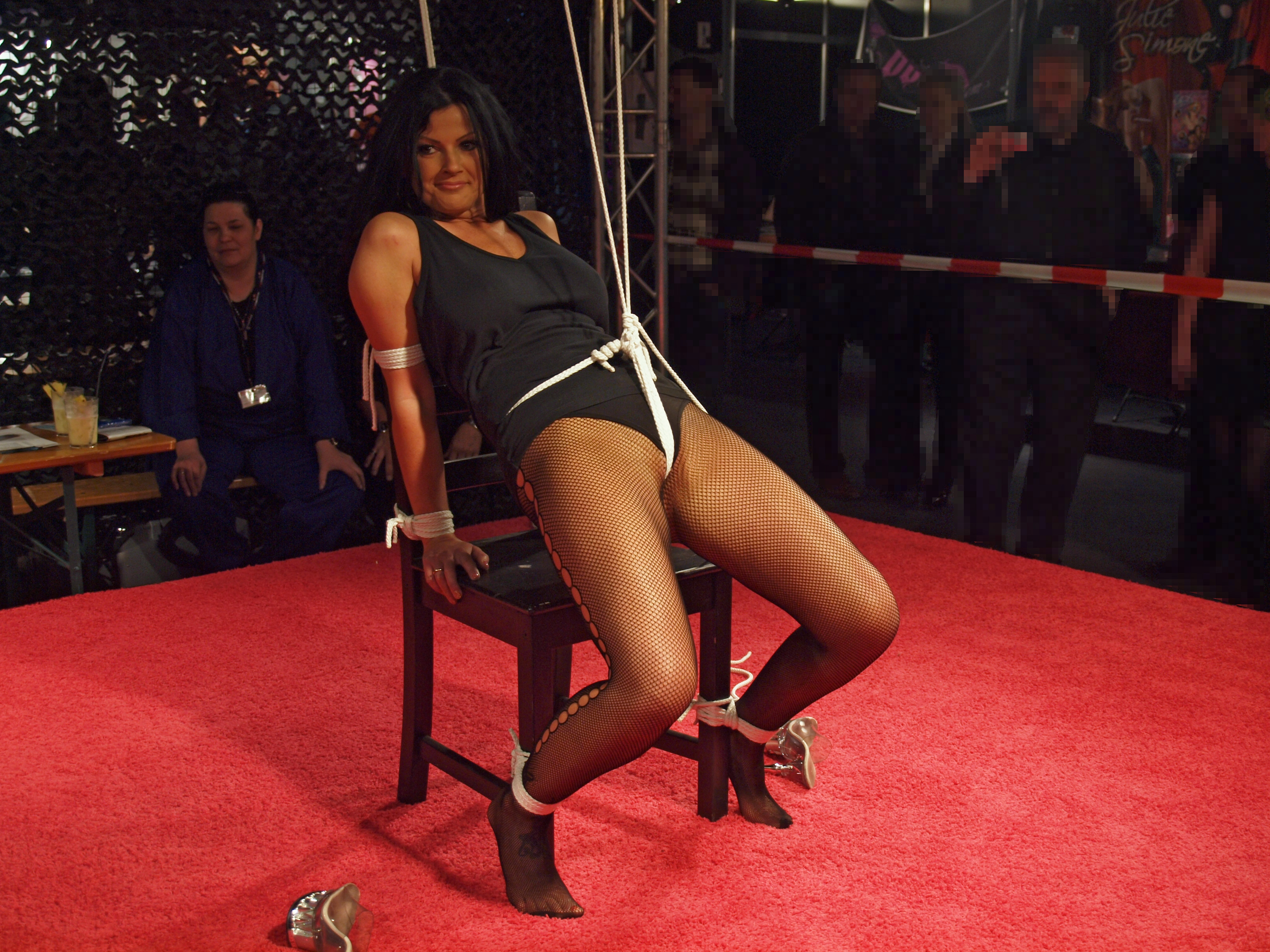 A woman bound to a chair, with her middle body suspended above the chair, trying to endure the position for 15 minutes, at BoundCon 2013 in Munich, Germany.